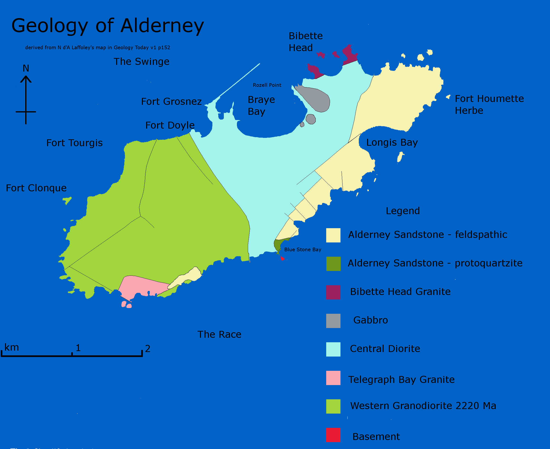 geological map of Alderney showing ages and rock types